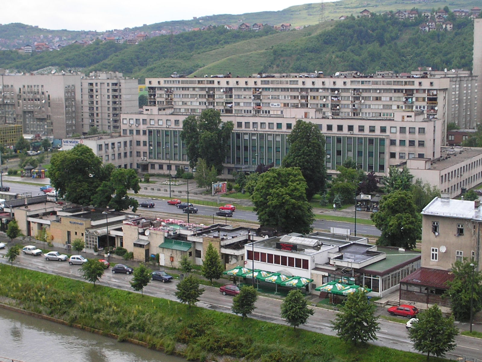 Faculty of veterinary medicine in Sarajevo, Bosnia and Herzegovina